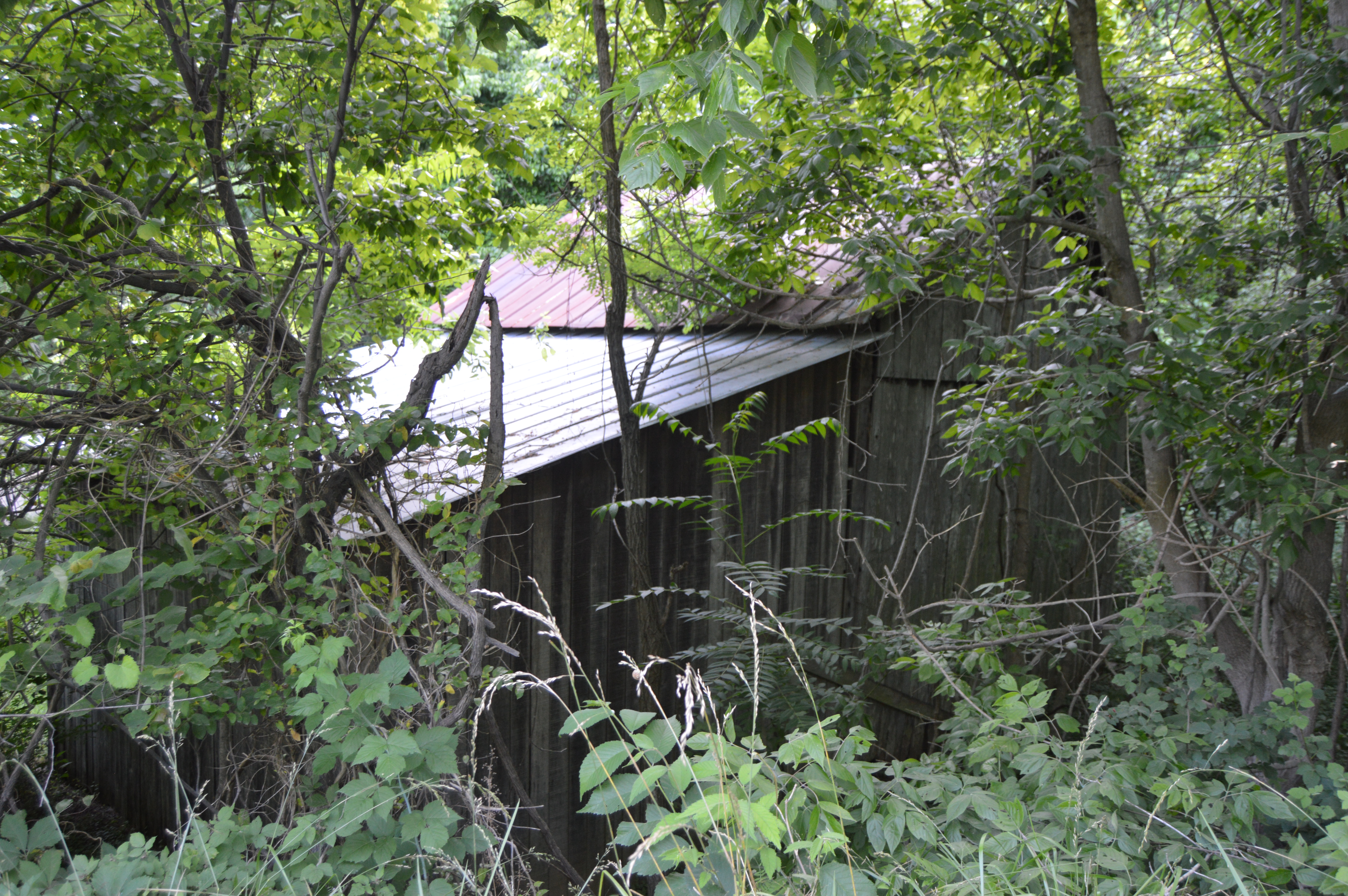 Through-the-trees view of a shed at the Reynolds Property, located on Rocky Road north of Rocky Point in Botetourt County, Virginia, United States. The farmstead is listed on the National Register of Historic Places.